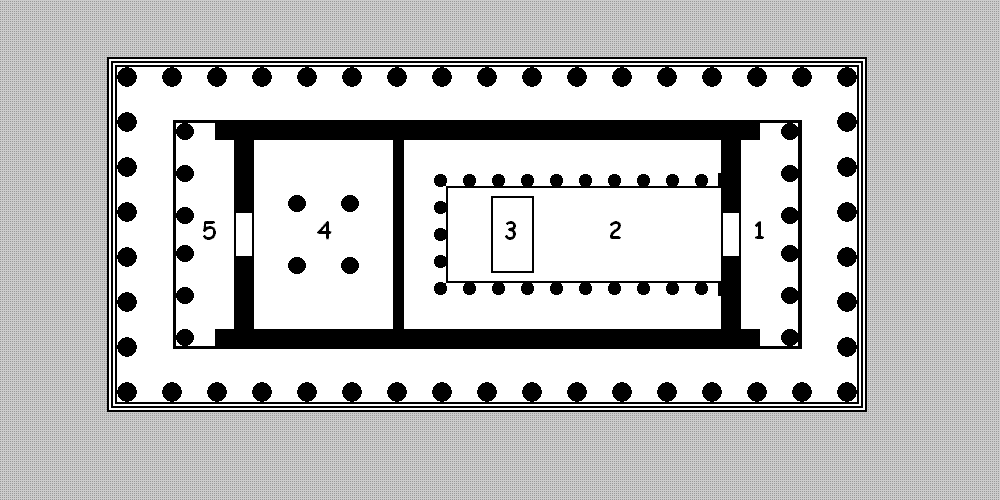 Parthenon top view